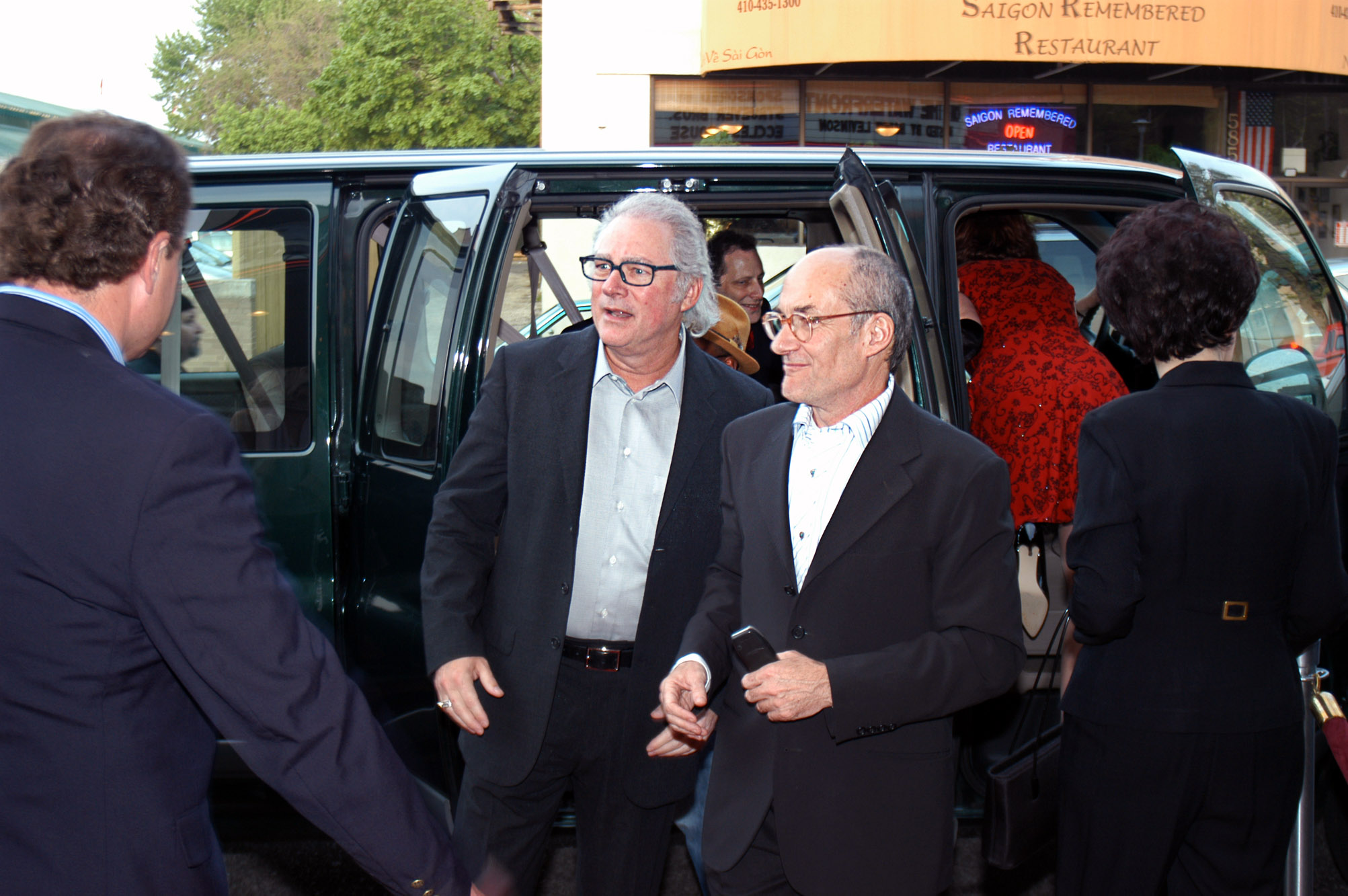 Barry Levinson and Jed Dietz - Opening Night 2003